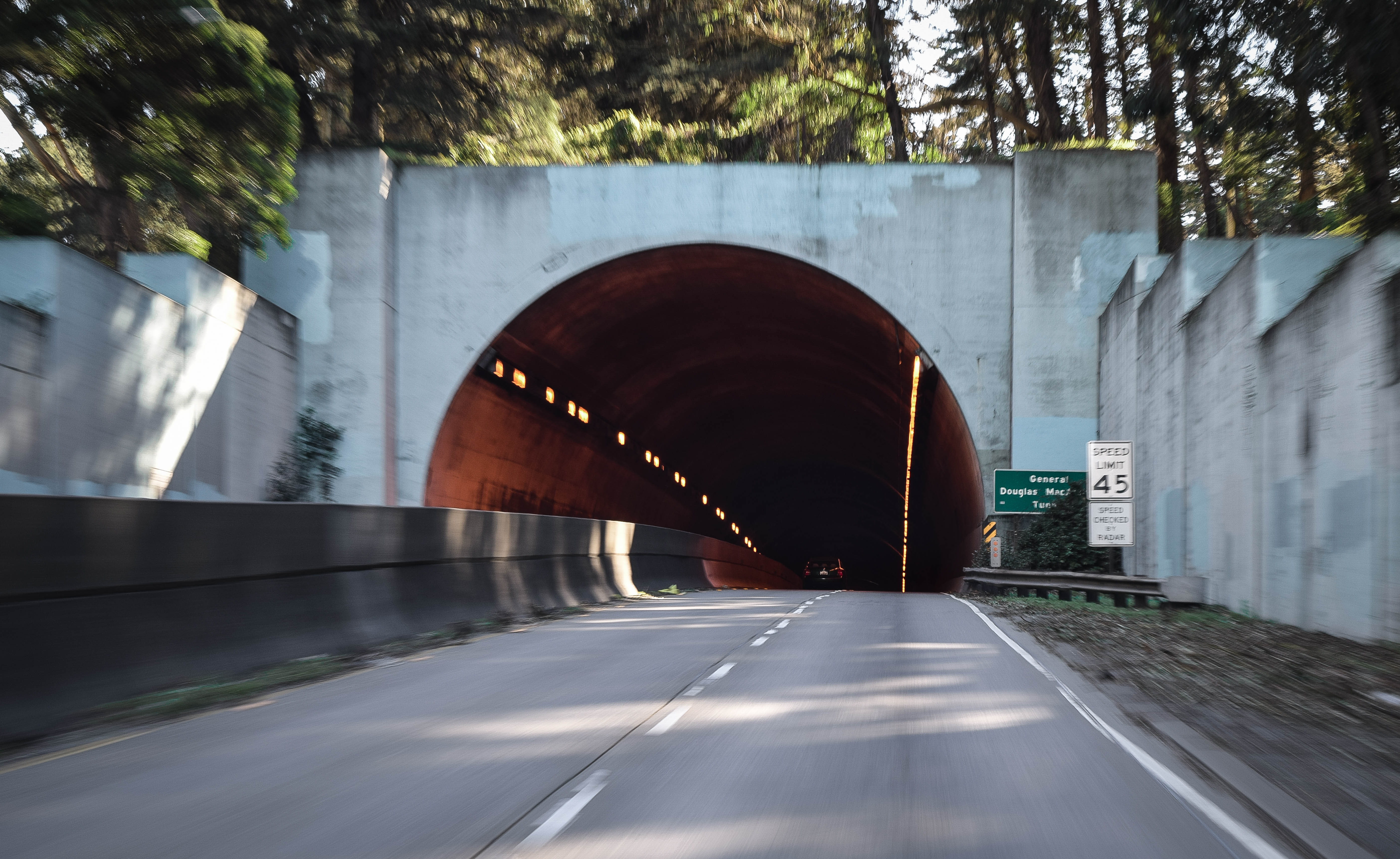 The west entrance of General Douglas MacArthur Tunnel in San Francisco, California, taken from a vehicle on Highway 101 on December 31st, 2014. Taken by Matt Popovich and released under a CC-BY-3.0 license.